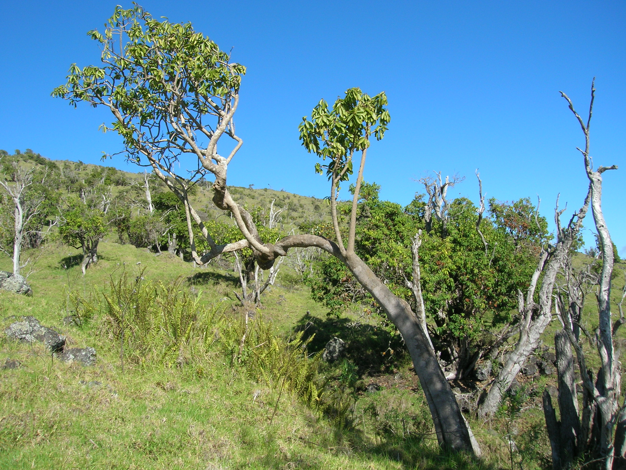 Charpentiera obovata (habit). Location: Maui, Auwahi